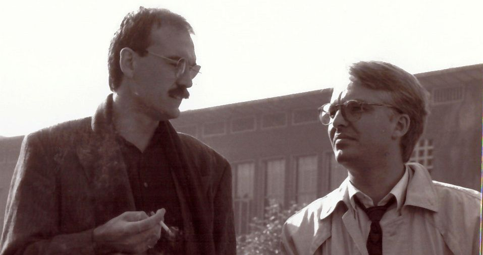 German sociologists Norbert F. Schneider (l.) and Bernd Halfar